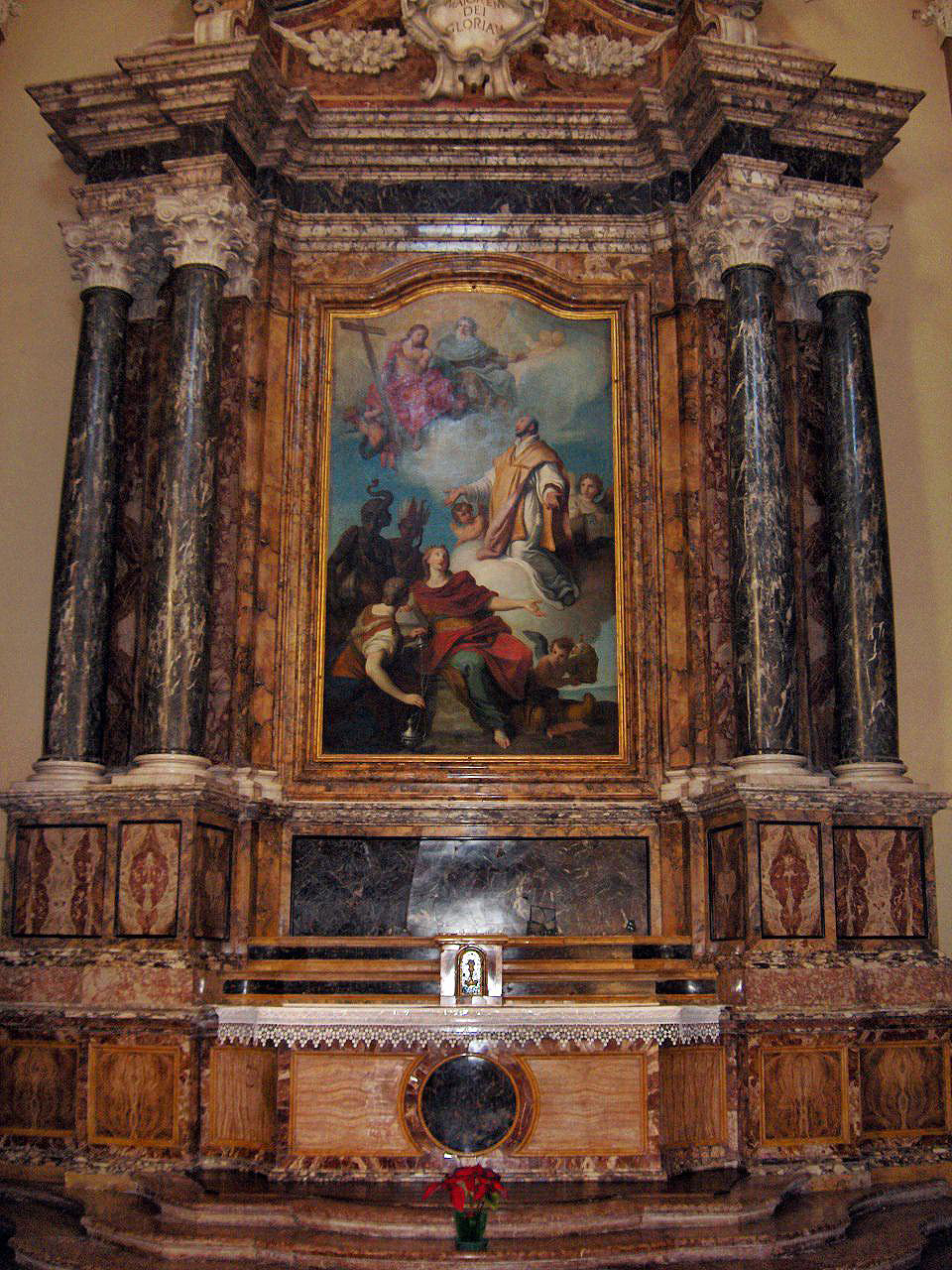 St. Francis Borgia in adoration by Pietro Antonio Rotari (17th century)